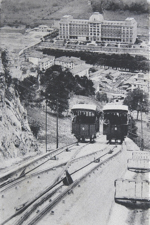 San Pellegrino Funicolar - Panorama